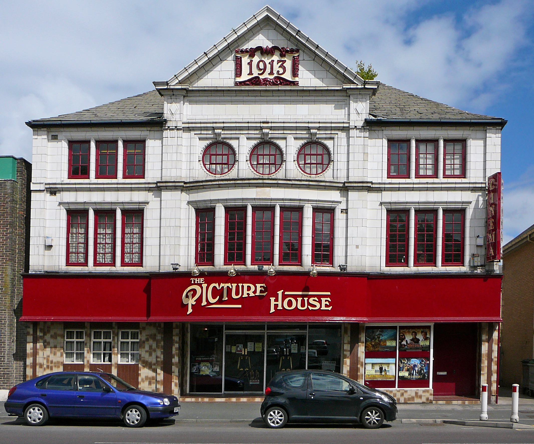 Keighley picture House, Keighley, West Yorkshire. Taken on Saturday the 20th of June 2009.